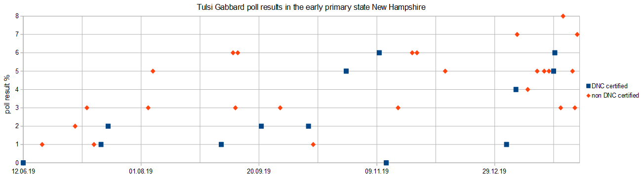 Diagram of Tulsi Gabbard poll results in New Hampshire during the 2020 Democratic Party presidential primaries. Data is displayed separately for DNC certified and non - DNC certified polls.